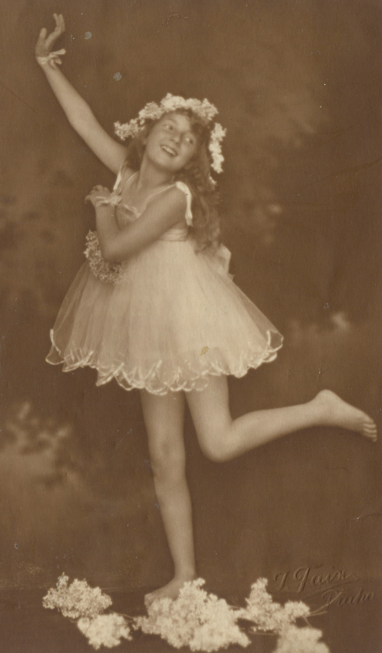 Little Dancing Girl, postcard